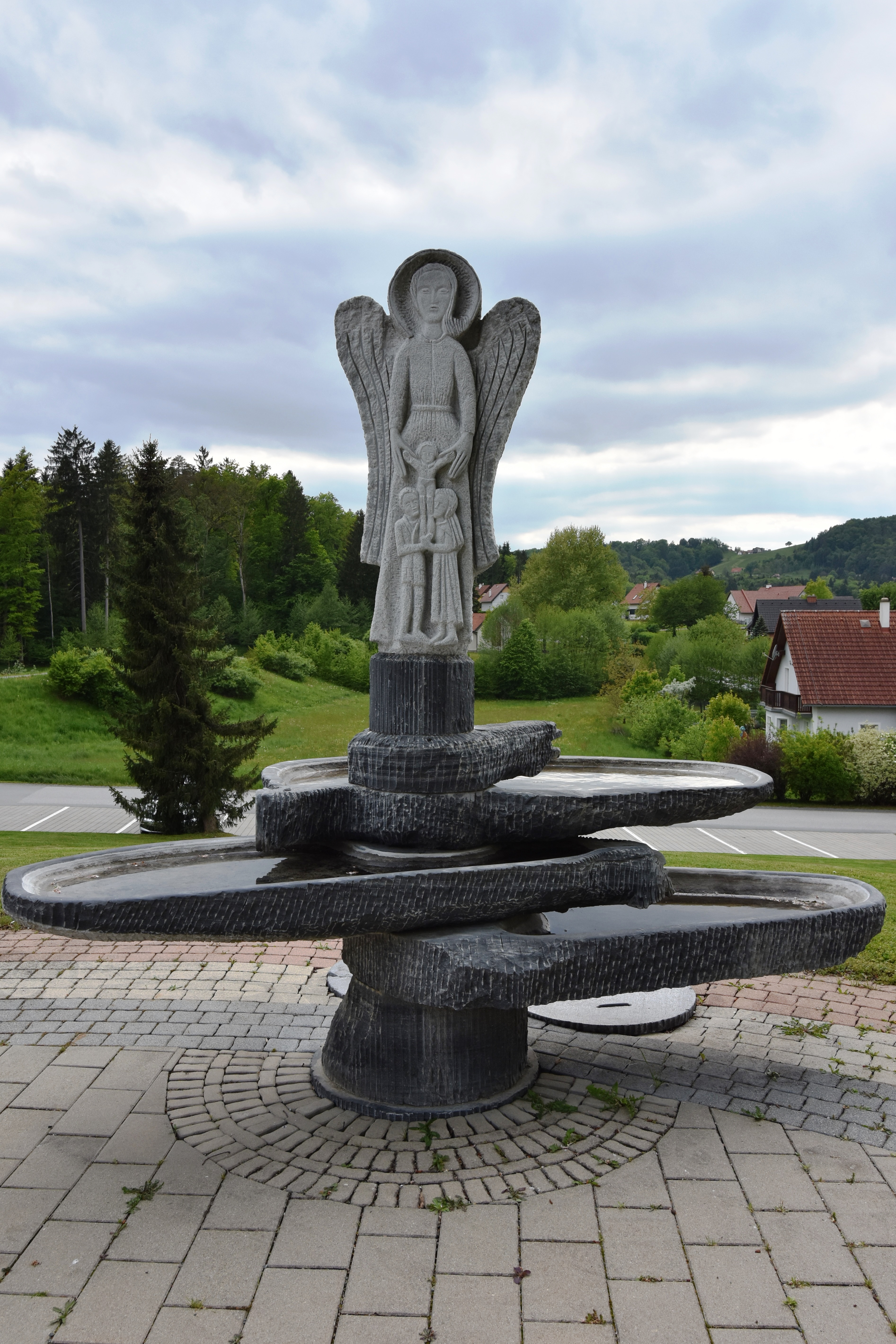 Schutzengel Heimschuh